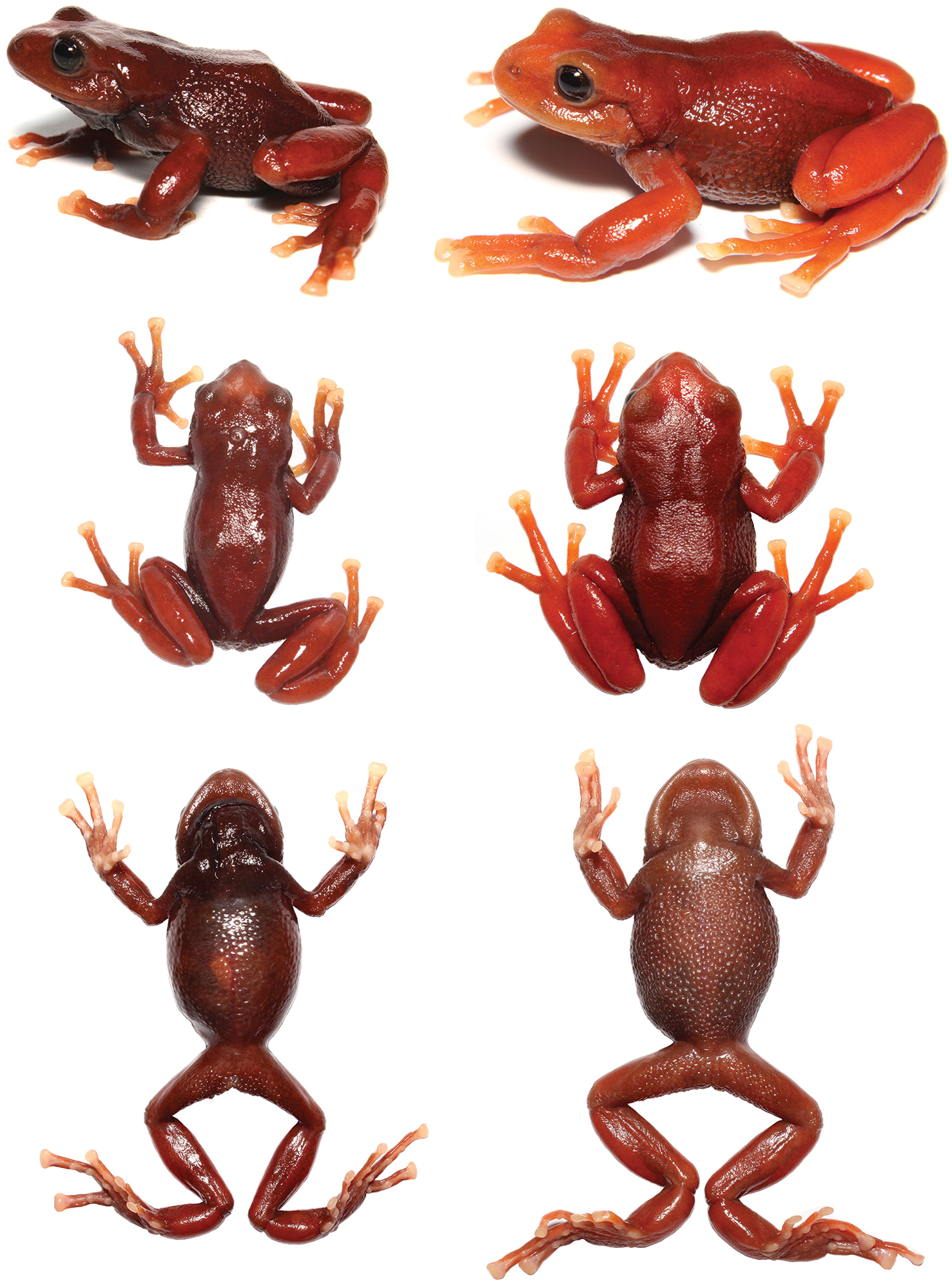 Lateral, dorsal and ventral views of living specimens of Pristimantis erythros. Left: Male paratype (DHMECN 12102, SVL: 37.1 mm); right: Female holotype (DHMECN 12103, SVL: 39.1 mm).